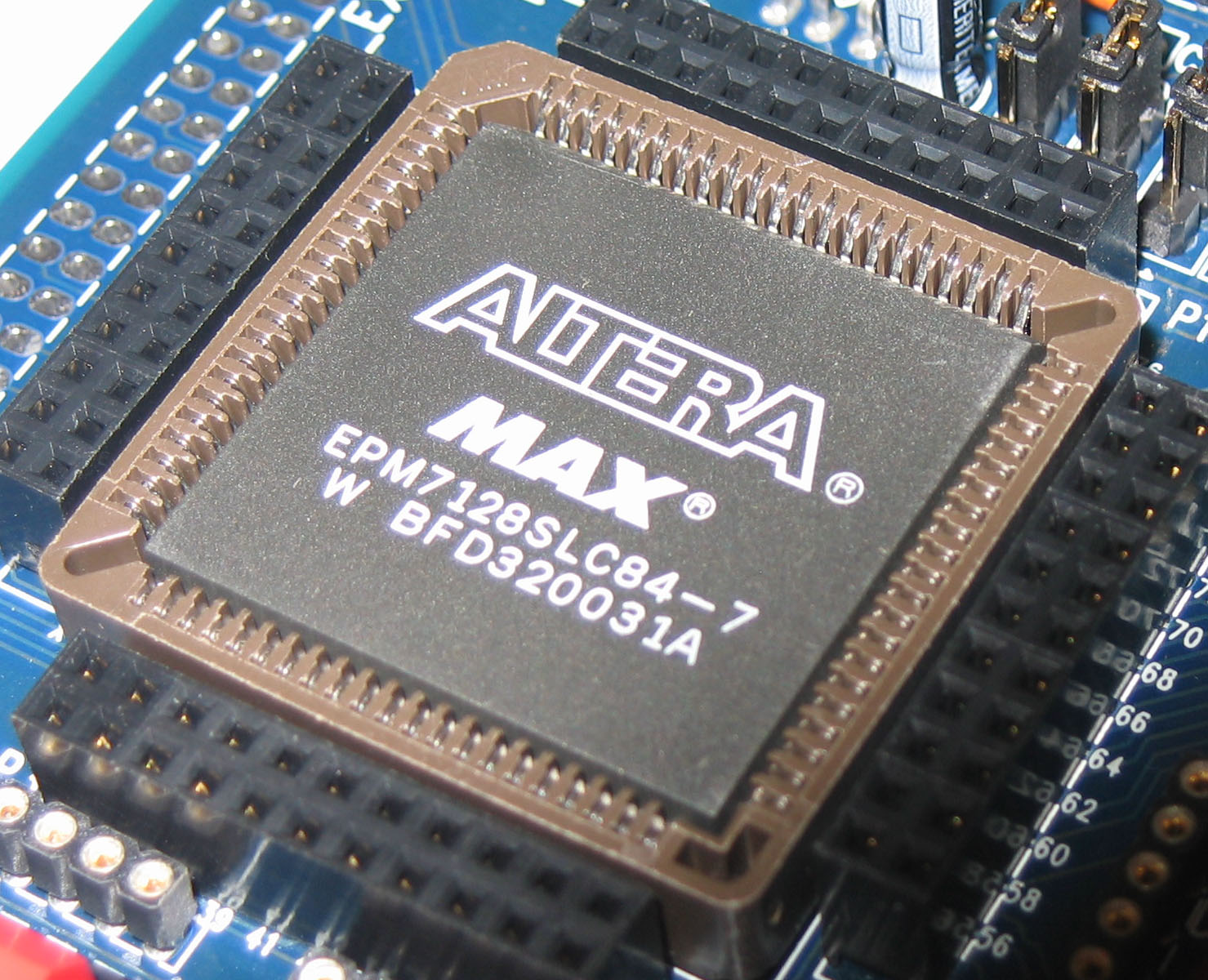 This is an Altera MAX 7000 series CPLD. Found on the 'UP 1' University Program board.